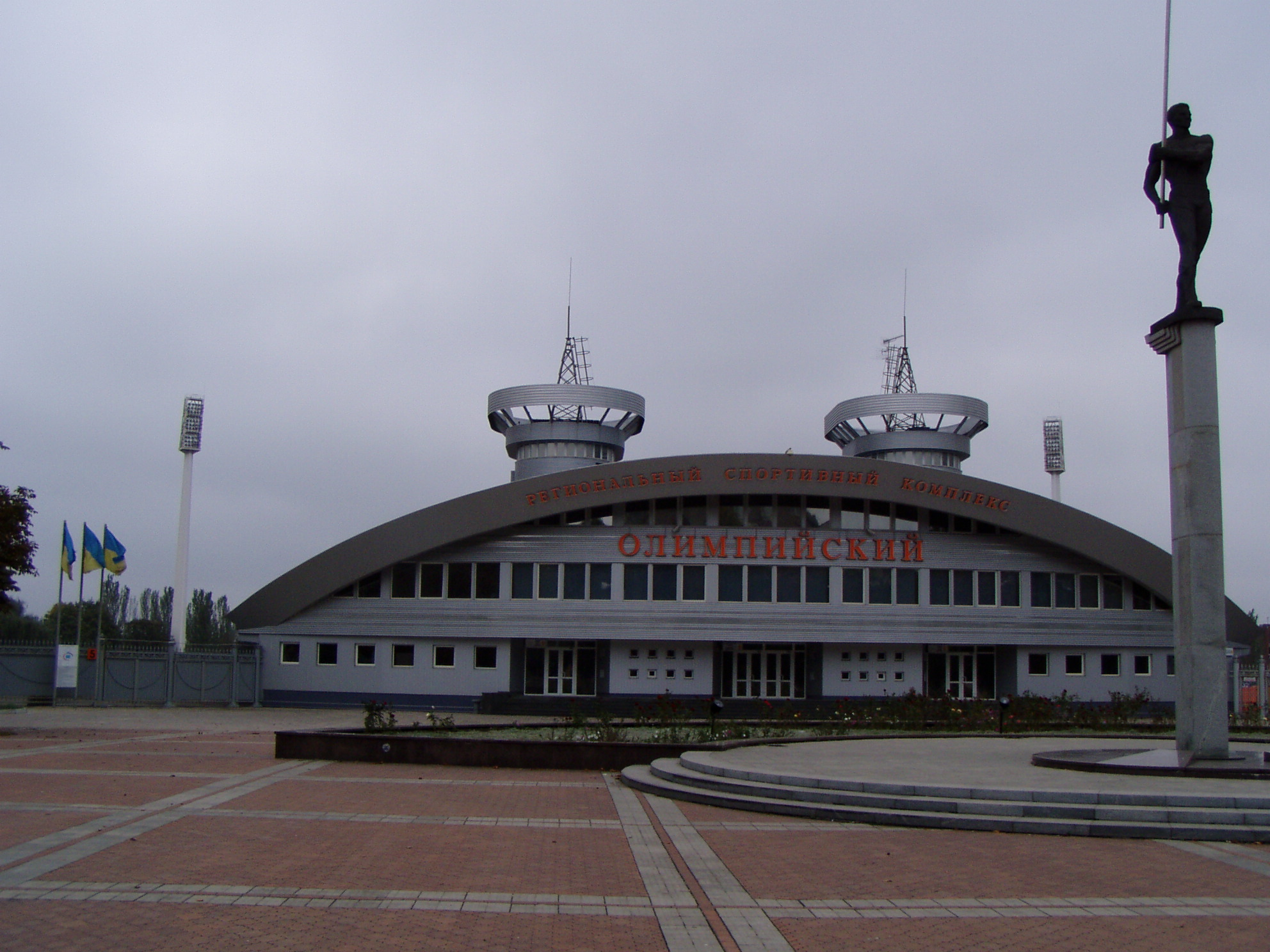 RSC Olympiyskiy